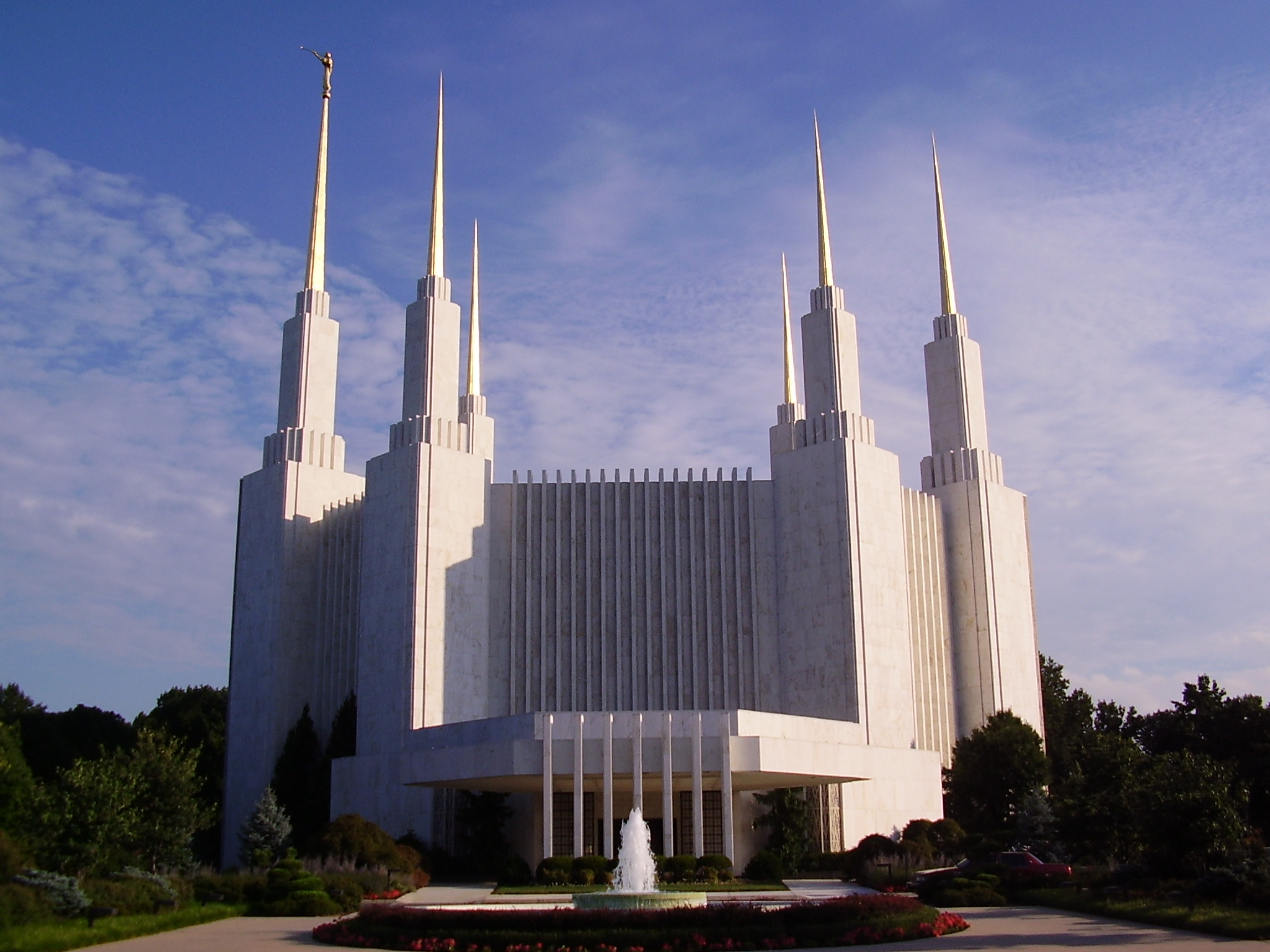 Photo of Washington D.C. Temple of the Church of Jesus Christ of Latter-day Saints.